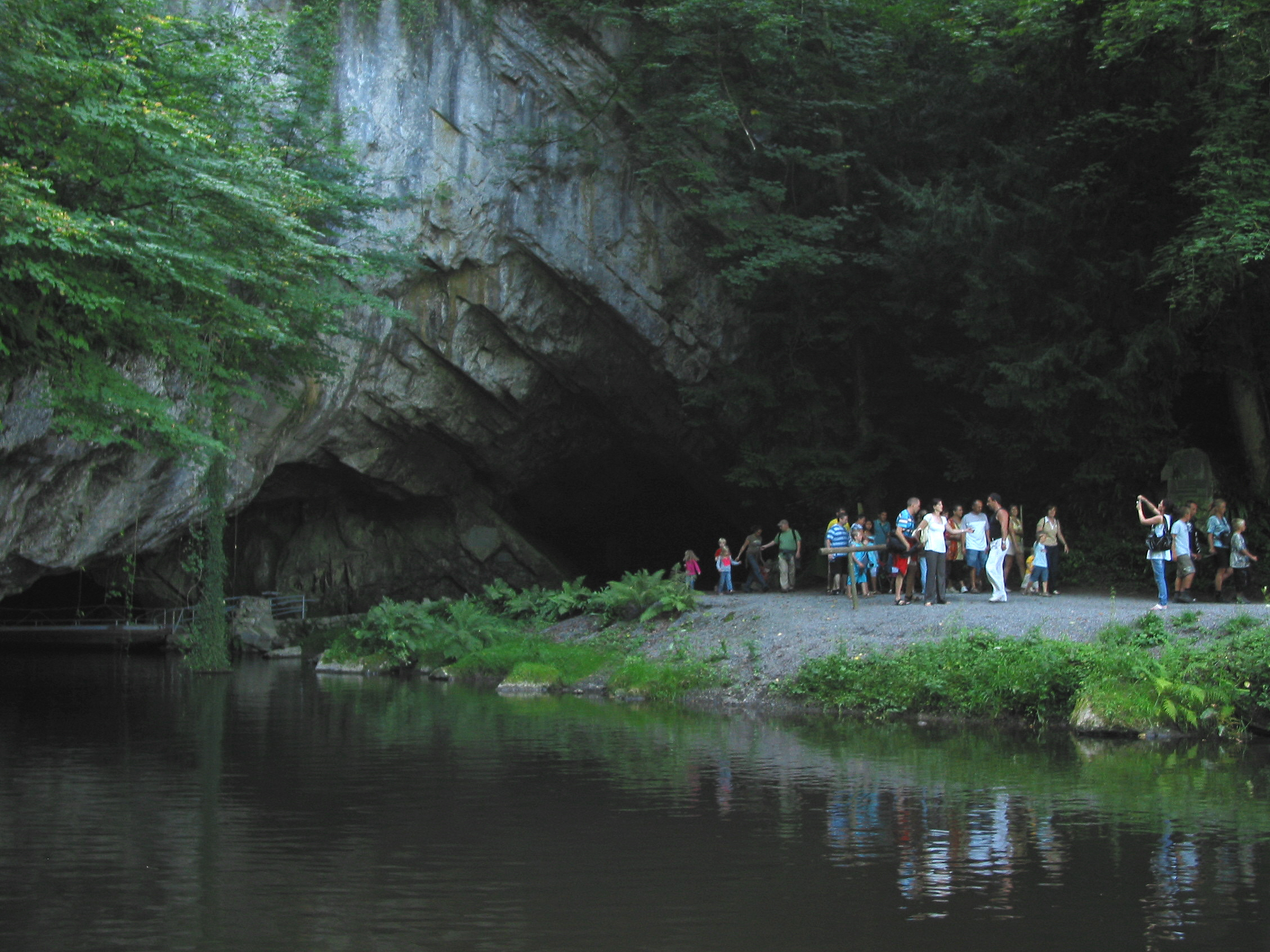 Han-sur-Lesse (Belgium), coming out of river Lesse at the Caves_of_Han-sur-Lesse exit.